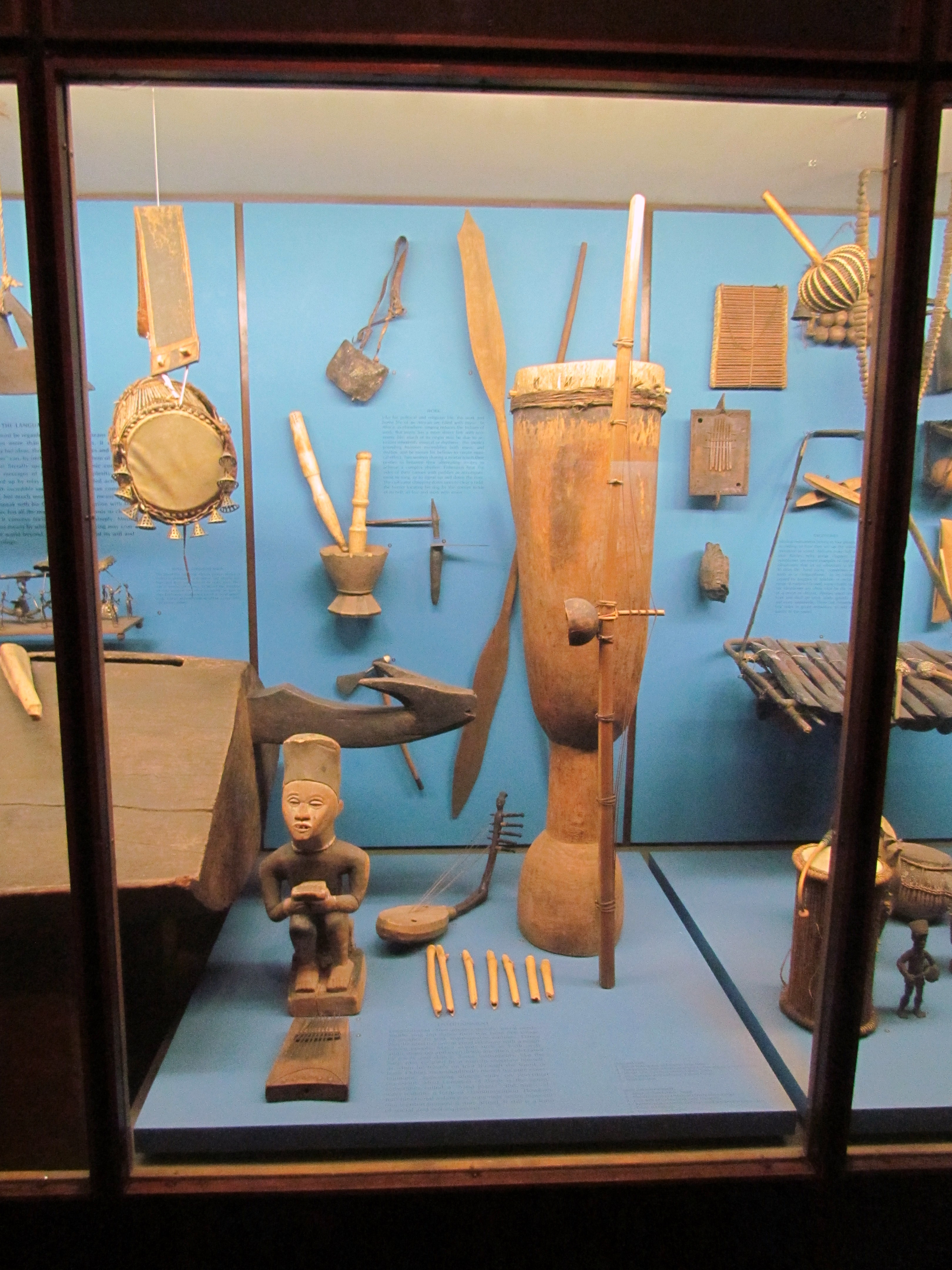 African Musical Instruments 4, American Museum of Natural History